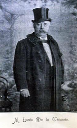 Louis de la Censerie (1838-1909), a famous Belgian architect